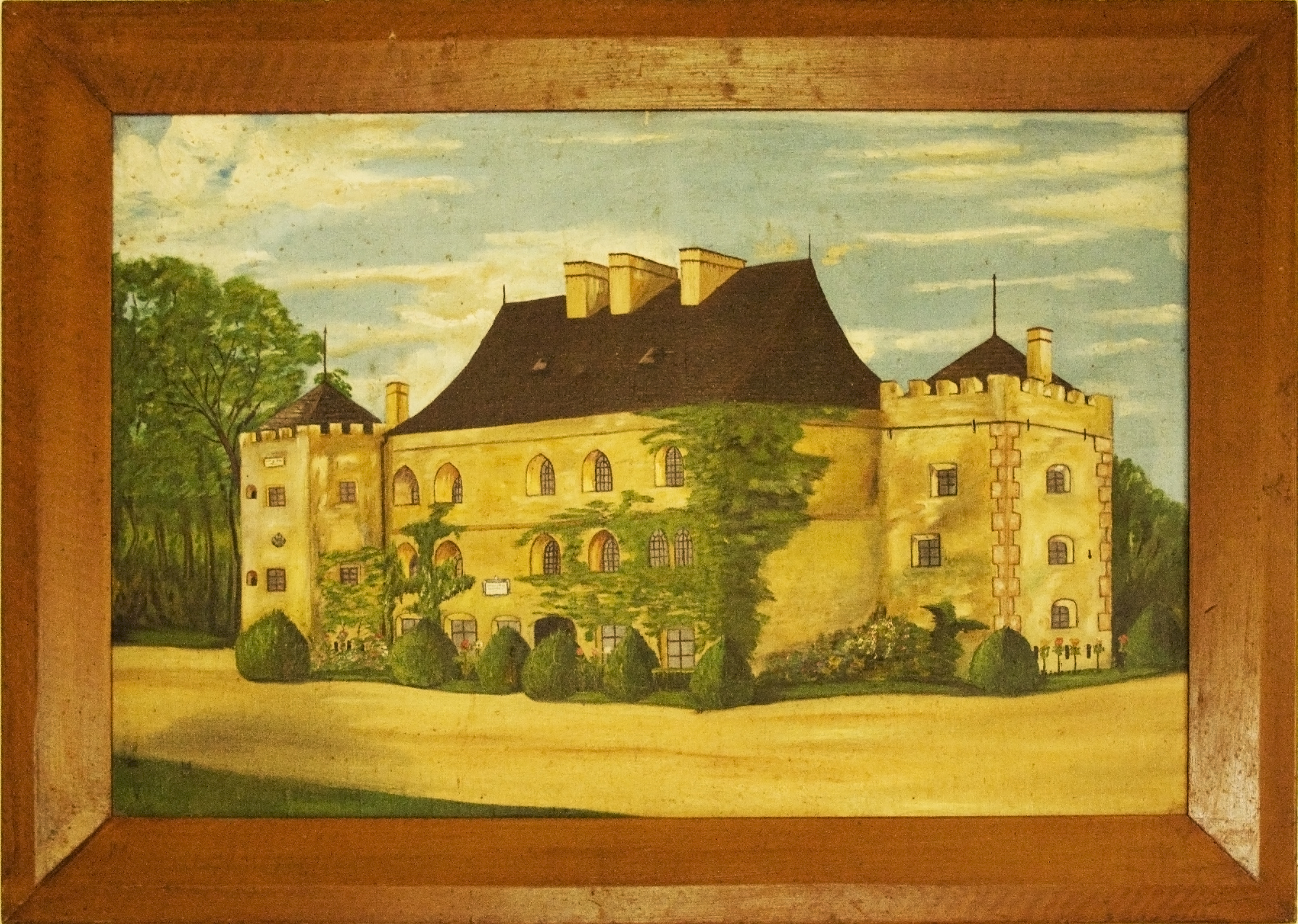 Vay Castle in 1906 by unknown painter